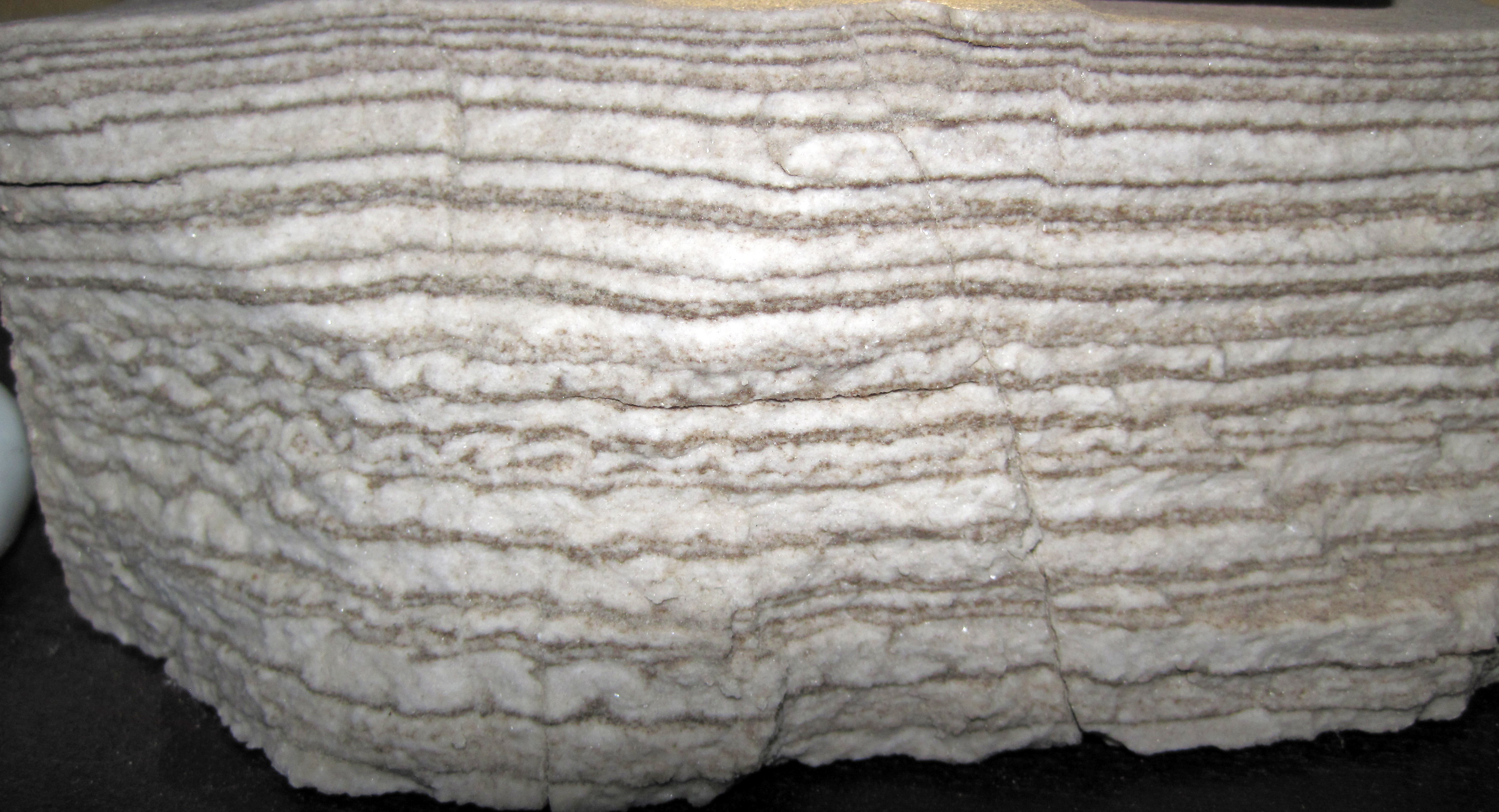 Horizontally laminated & structurally crinkled gyprock from the Permian of New Mexico, USA. This is a sample of gyprock (rock gypsum), a finely crystalline-textured, chemical sedimentary rock dominated by the mineral gypsum (CaSO4·2H2O - hydrous calcium sulfate). The whitish-gray layers are the gypsum. The dark brown layers are calcite (CaCO3 - calcium carbonate). Gyprock is an evaporite, which forms by the evaporation of water (usually seawater) and the precipitation of dissolved minerals. Small-scale crinkling is present in the specimen. The original outcrop also had small-scale folding and faulting. These features are the result of early Cenozoic structural deformation, not gypsum-to-anhydrite (or vice-versa) transformations (see Anderson & Kirkland, 1987). Stratigraphy: Castile Formation, upper Upper Permian Locality: State Line outcrop, roadcut on either side of Rt. 180/Rt. 62, between Carlsbad Caverns National Park and Guadalupe Mountains National Park, immediately north of the Texas border, southern Eddy County, southeastern New Mexico, USA (32° 00' 34.2" North latitude, 104° 29' 55.0" West longitude) Reference cited: Anderson, R.Y. & D.W. Kirkland. 1987. Banded Castile evaporites, Delaware Basin, New Mexico. Rocky Mountain Section of the Geological Society of America, Centennial Field Guide Volume 2: 455-458.